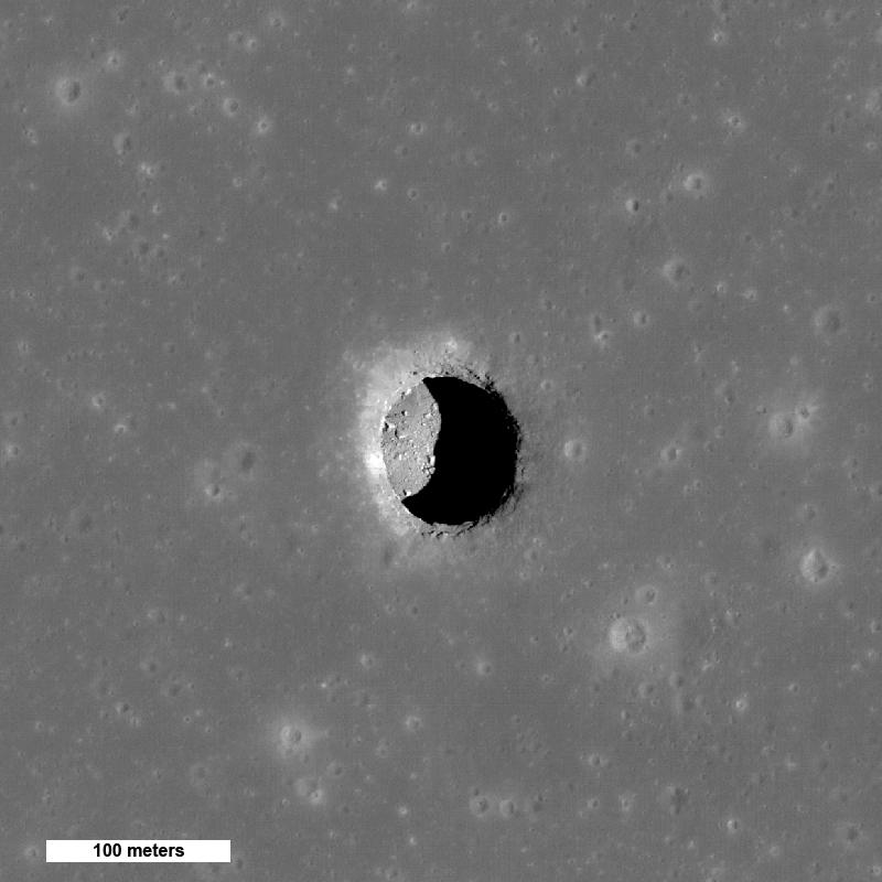 Spectacular high Sun view of the Mare Tranquillitatis pit crater revealing boulders on an otherwise smooth floor. Image is 400 meters wide, north is up, NAC M126710873R. When the Sun is well overhead, the floor of the Mare Tranquillitatis pit is illuminated. With an incidence angle of 26.5° and a shadow of 55 meters (180 feet), scientists can estimate the depth to be a bit over 100 meters (328 feet). That estimate is from the edge of the shadow, which begins a slightly downslope from the gradual margin of the pits. When measured from the level of the surrounding mare plain, the depth of the pit is even greater. Compare this depth to the width, which ranges from 100 to 115 meters (328 to 377 feet) across the sharp precipice. NASA's Goddard Space Flight Center built and manages the mission for the Exploration Systems Mission Directorate at NASA Headquarters in Washington. The Lunar Reconnaissance Orbiter Camera was designed to acquire data for landing site certification and to conduct polar illumination studies and global mapping. Operated by Arizona State University, LROC consists of a pair of narrow-angle cameras (NAC) and a single wide-angle camera (WAC). The mission is expected to return over 70 terabytes of image data. The description is copied from File:Mare Tranquillitatis pit crater.jpg.